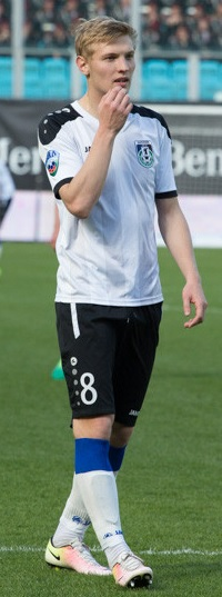 Mikhail Zemskov with FC Shinnik Yaroslavl in a game against FC Dynamo Moscow.